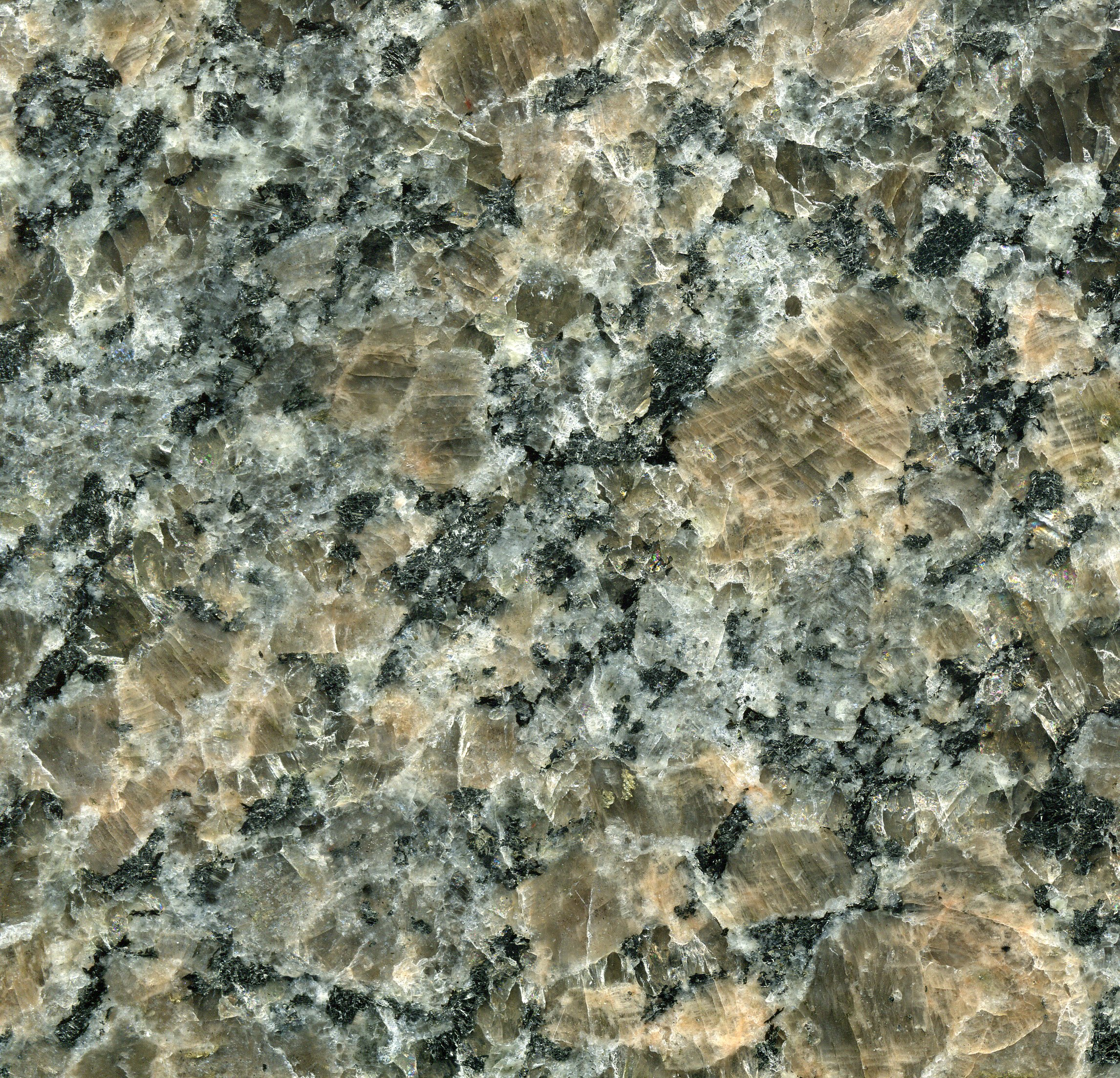 Nara Brown Granite (a.k.a. Nara Granite, Caledonia Granite, Caledonia Nara Brown Granite, Caledonia Nara Granite) - this has the appearance of an ordinary porphyritic granite with K-feldspar phenocrysts, but petrologic and regional geologic work shows that it is a charnockite (a porphyritic farsundite or porphyritic quartz mangerite, to be more specific). Geologic Unit & Age: Rivière-à-Pierre Plutonic Suite, Grenville Orogeny metamorphism, late Mesoproterozoic, ~1.1 Ga. Locality: quarry north of town of Rivière-à-Pierre, Portneuf County, southern Quebec, southeastern Canada. Charnockites are intrusive igneous rocks that are dark-colored and coarsely-crystalline. Mineralogically, charnockites have quartz, feldspar, and pyroxene. Many charnockites have been metamorphosed, sometimes with obvious foliation, but often with extremely subtle foliation, best seen in the black pyroxene component. The feldspar component of charnockite can “glimmer” when tilted in the light.